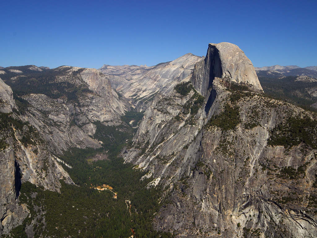 Yosemite Valley and Half-Dome from Glacier Point.